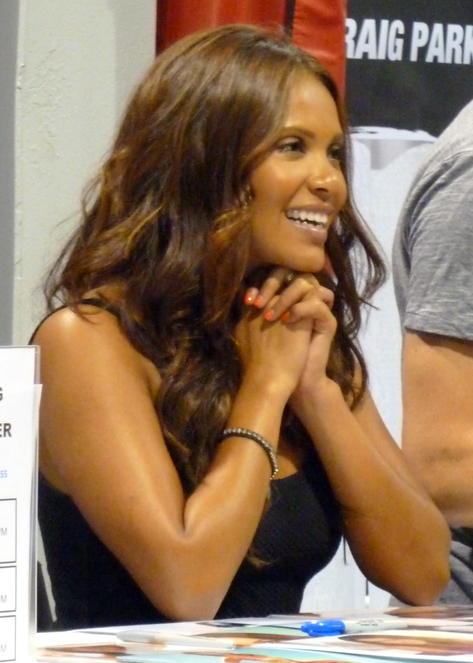 Lesley-Ann Brandt 05 Guests at Wizard World Chicago 2012.